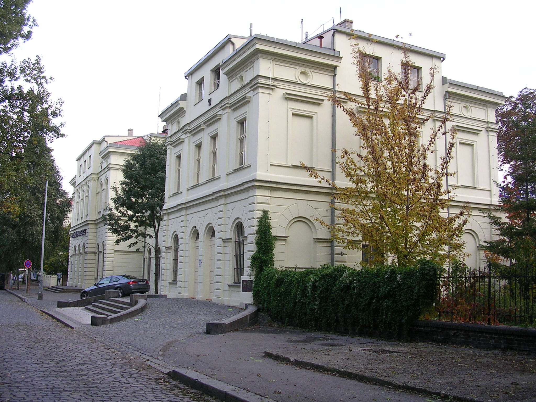 Dejvice, Prague, the Czech Republic. Train station.